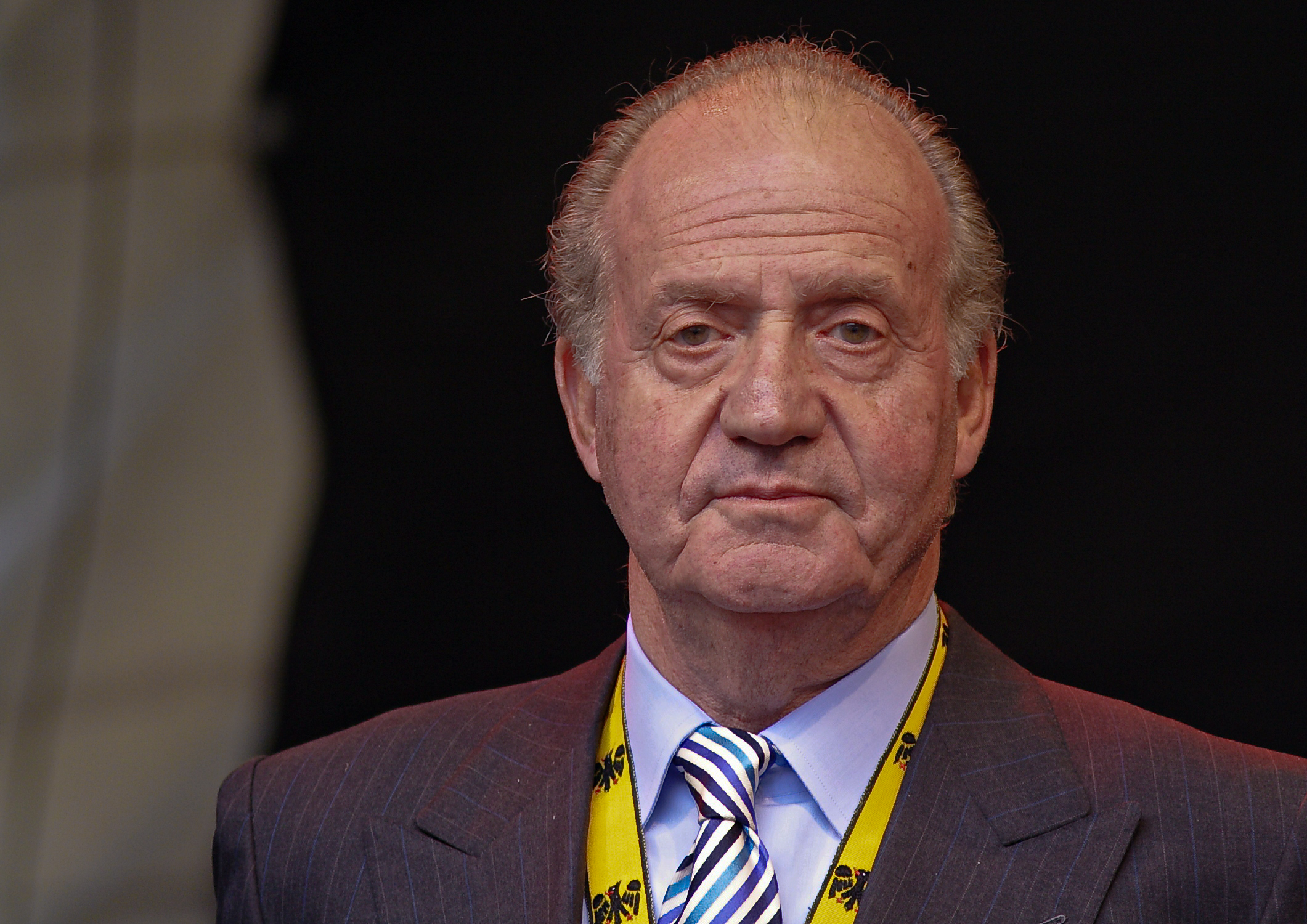 Juan Carlos I of Spain This picture shows Juan Carlos I who is King of Spain. The photograph was made on the occasion of the International Charlemagne Prize of the city of Aachen in the year 2007. The yellow ribbon with the black eagles belongs to the Charlemagne Prize medal, which was awarded to His Majesty in 1982. The original photograph is shot by user א (Aleph). This version edited by Thermos Camera data Camera: Canon EOS 350D Lens: EF 300 mm 1:4 L IS USM Exposure time: 1/250 s Sensivity: ISO 400